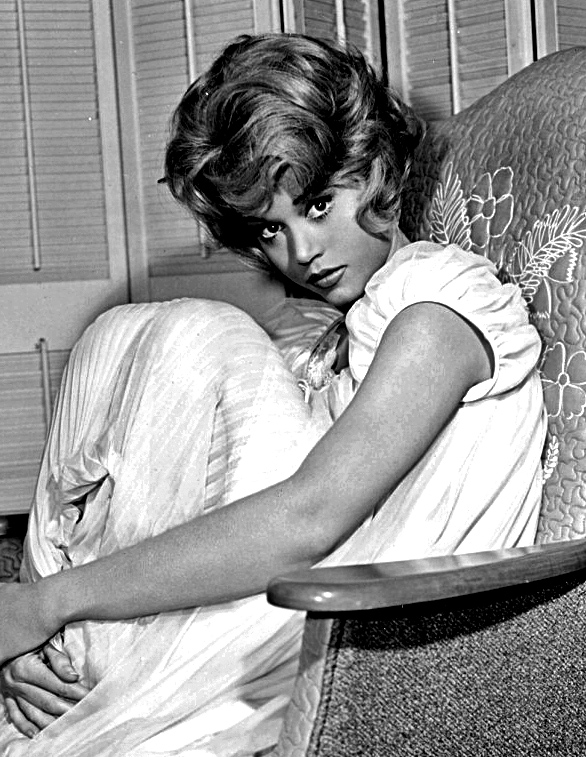 Original publicity photo of Jane Fonda for the film Period of Adjustment (1962).